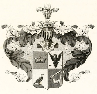 ГЕРБ РОДА ЛИХАРЕВЫХ 5-35